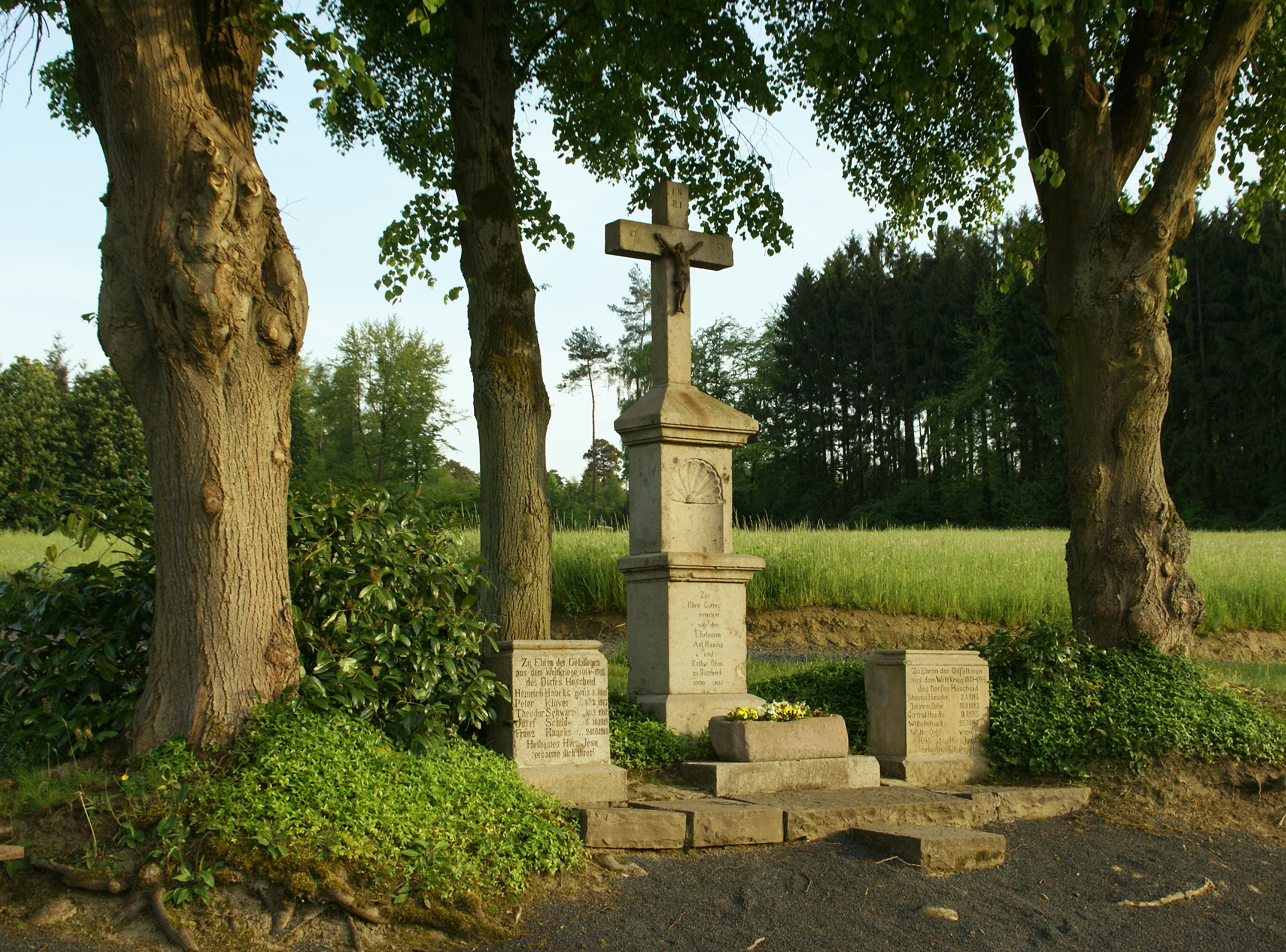 Wayside cross and war memorial in Hüscheid, Hüscheider Weg